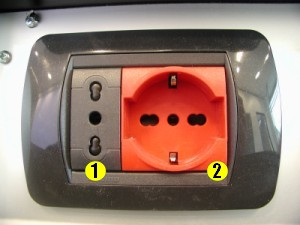 An Italian adapted Schuko socket (number 2), named P 40 (BTicino Living International)